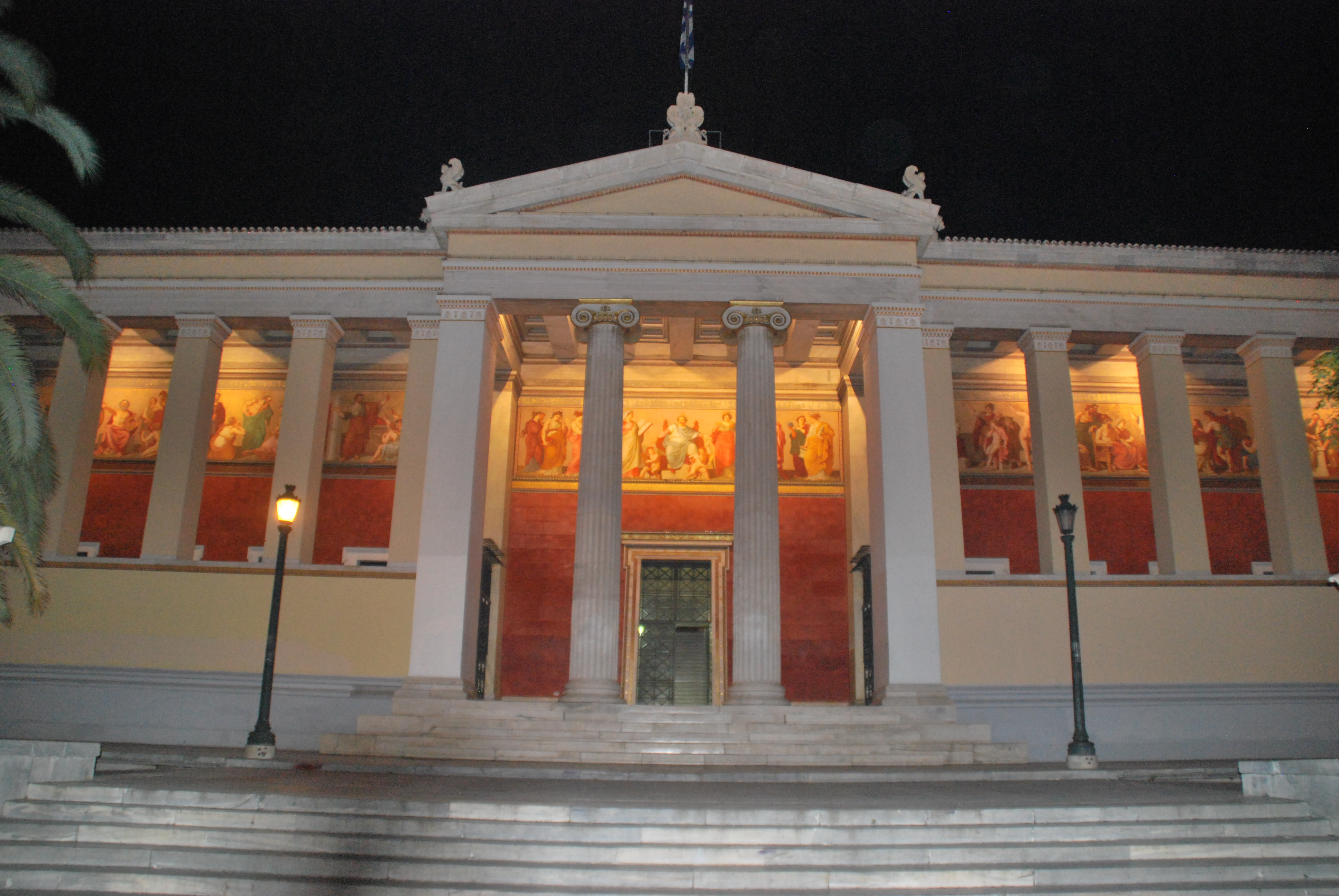 The Propylaea, part of the “Trilogy” of Theofil Hansen, serves as the ceremony hall and rectory of the National and Kapodistrian University of Athens. .